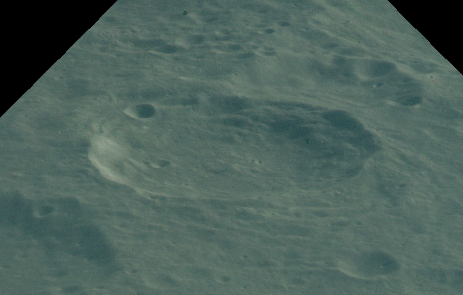 Oblique view of Lane crater, on the far side of the moon, facing south. Brightness and contrast greatly adjusted from the dark original.